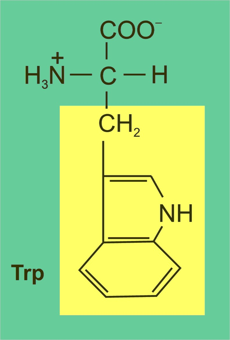 tryptophan amino acid formula jpg